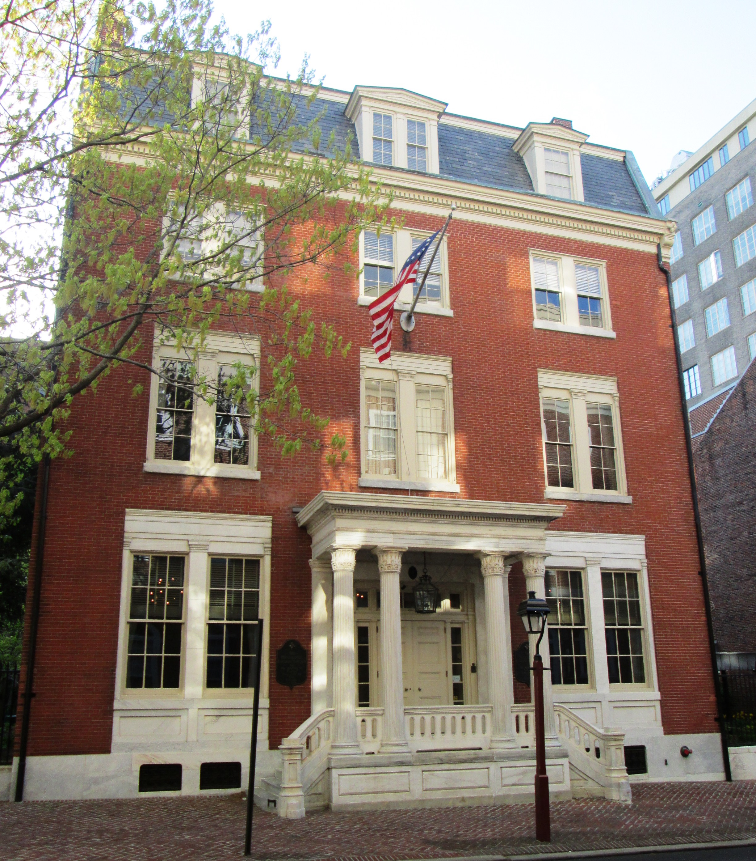 The Philadelphia Contributionship for the Insurance of Houses from Loss by Fire at 212 S. 4th Street between Walnut and Locus Streets in the Society Hill neighborhood of Philadelphia was built in 1835-36 and was designed by Thomas U. Walter in the Greek Revival style, with Corinthian columns. The portico was replaced in 1866 by Collins and Autenreith who also expanded the living quarters on the top two floors by the addition of a mansard roof. A marble cornice between the 3rd and 4th floors was also added. The Contributorship was organized by Benjamin Franklin in 1752 and is the oldest mutual fire insurance company in the United States. (Source: Philadelphia Architecture: A Guide to the City (2nd ed.))